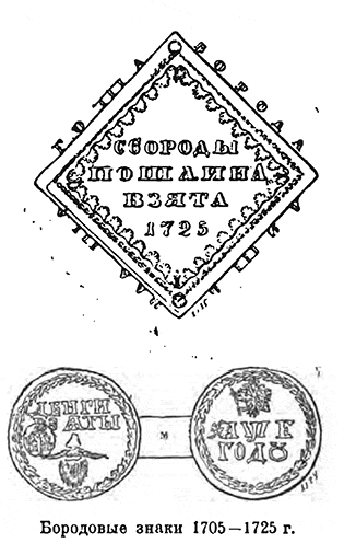 Image of 1725 and 1705 beard tokens from Alexander Bruckner's "An Illustrated History of Peter the Great," Vol. 1.